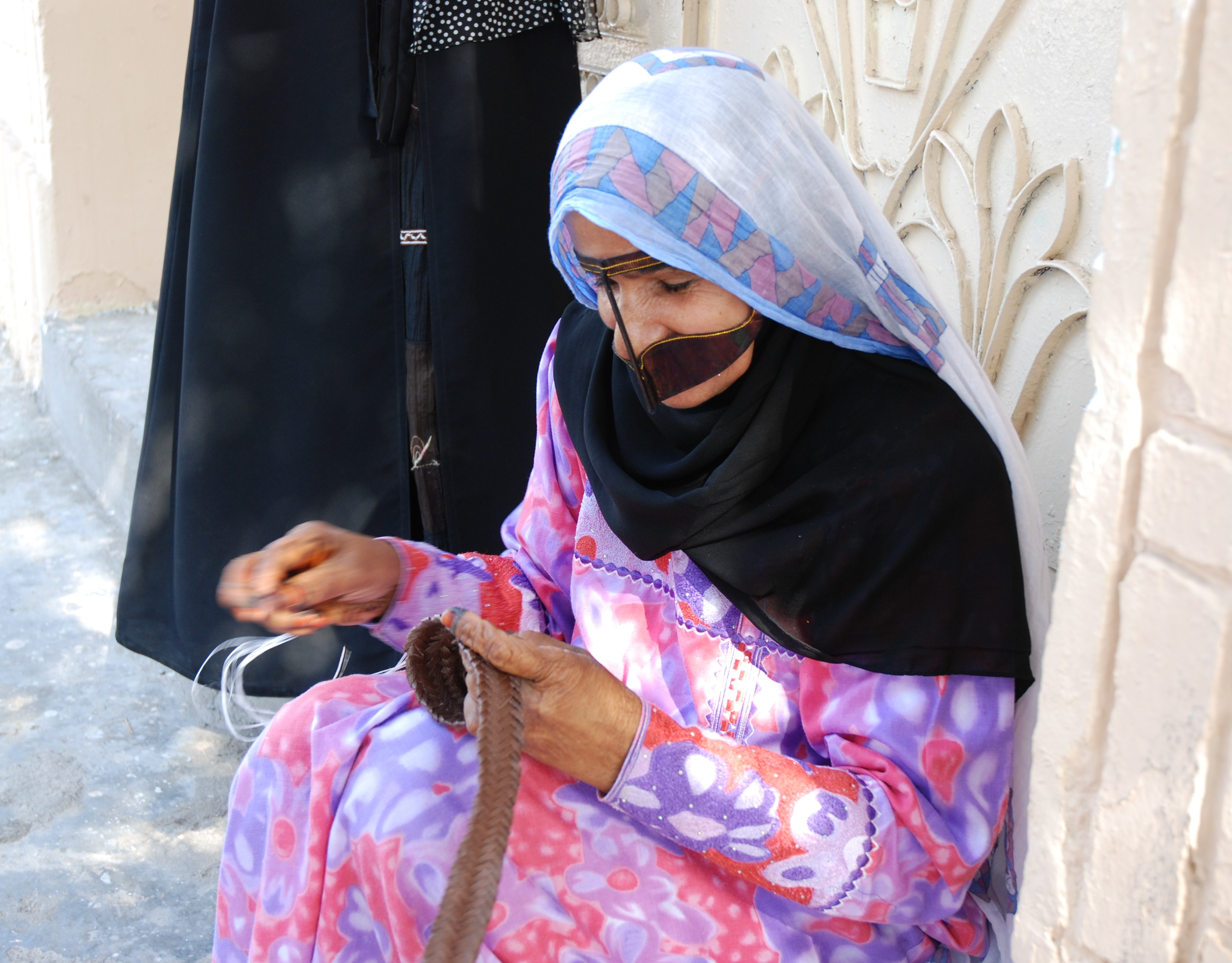 Craftswoman in northern Oman